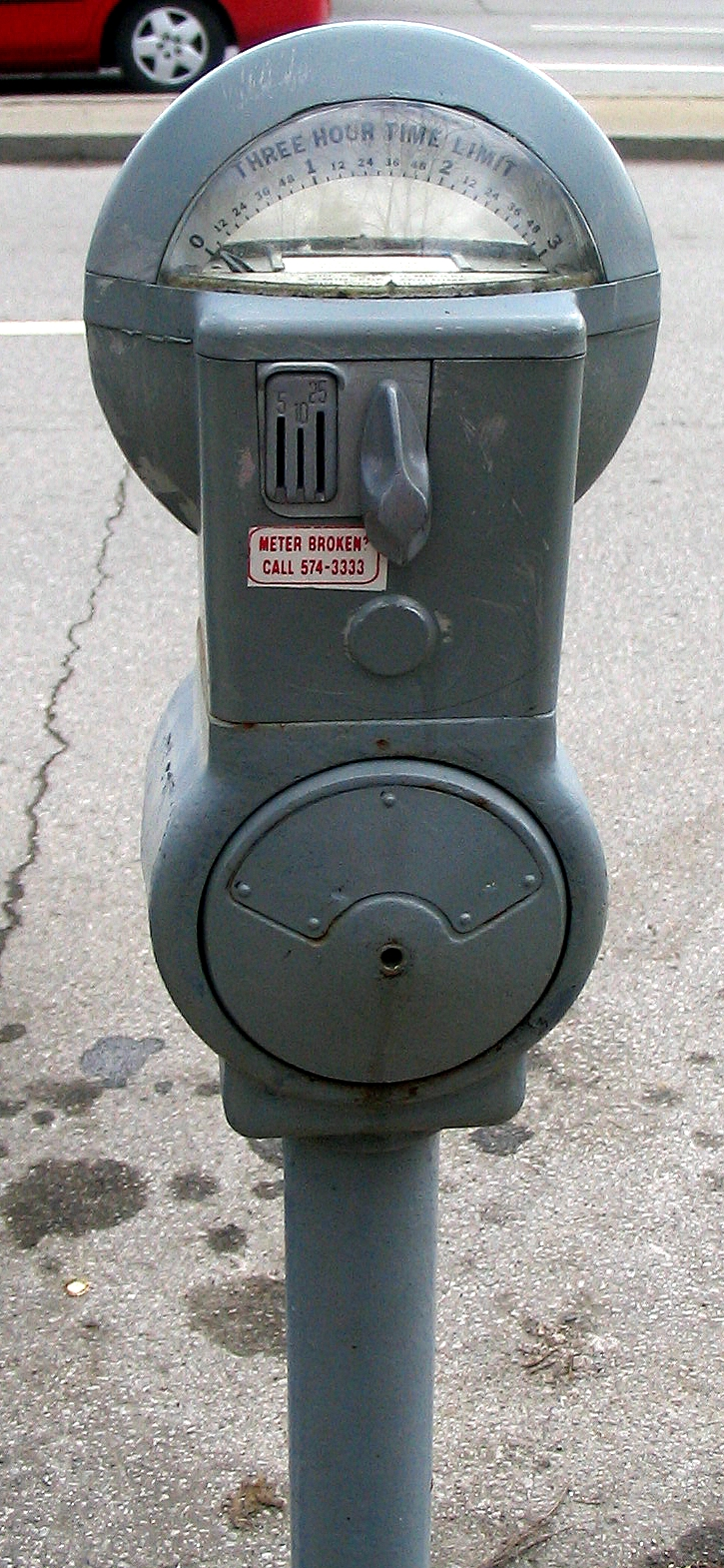 A parking meter in Cincinnati, Ohio